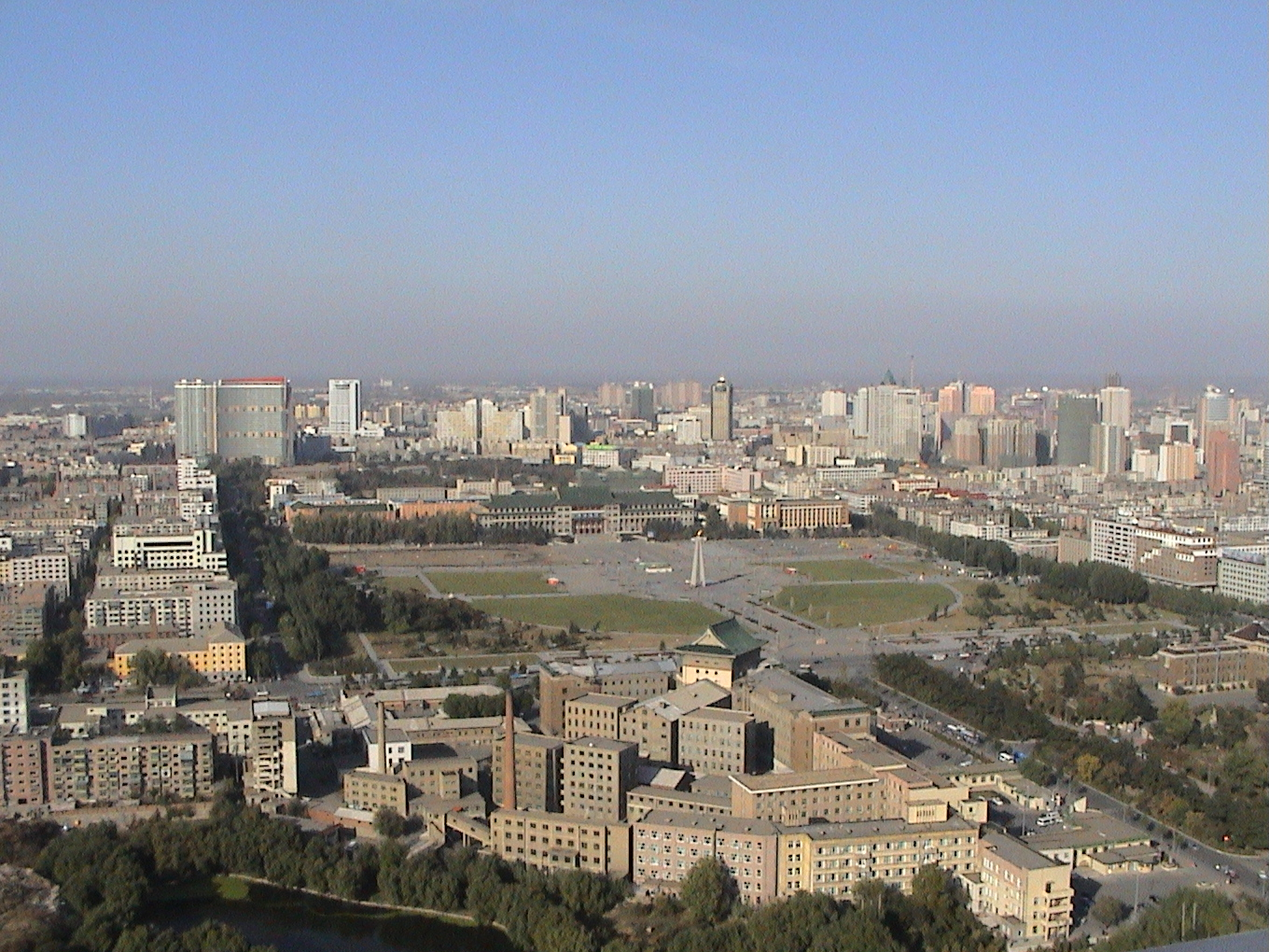 View of the Cultural Square of Changchun, as seen from Ji Tower